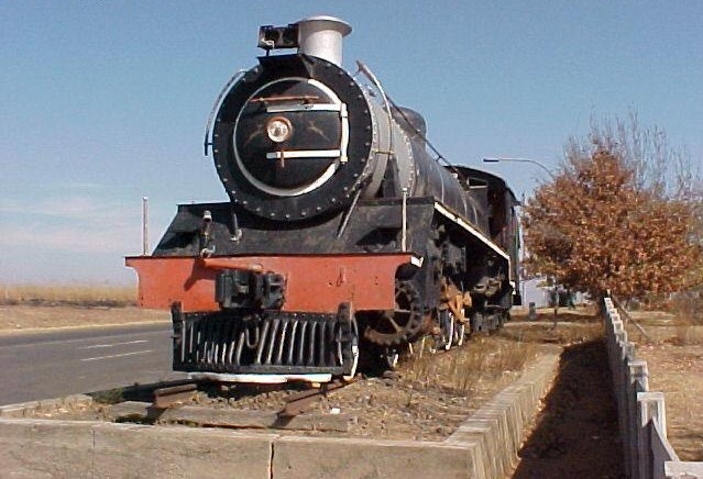 SAR Class 19 1369 (4-8-2) Builder's Number: Berliner 9282 Tender: Type MP1 Location: Breyten, Mpumalanga